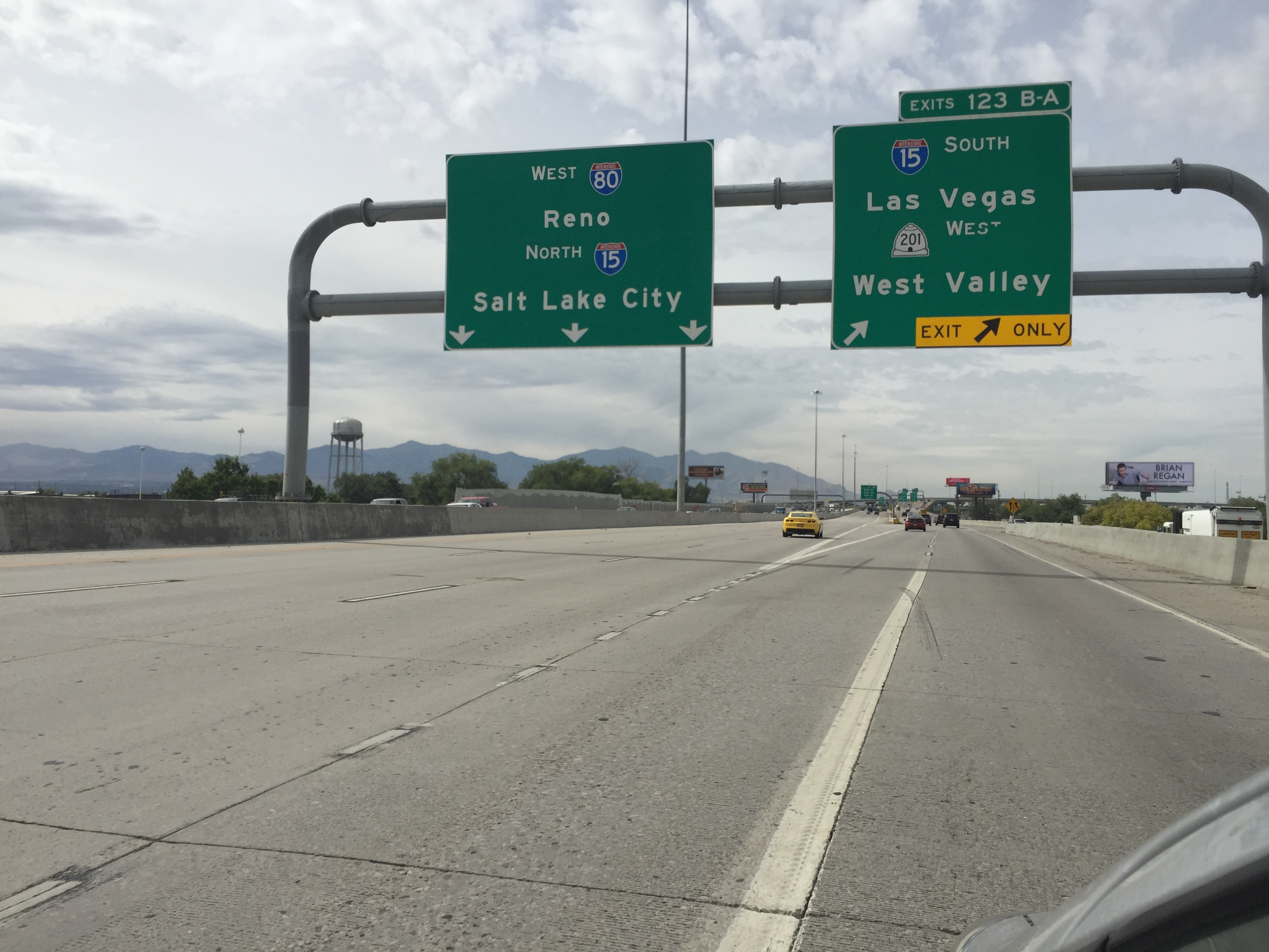 View west along Interstate 80 at Exit 123 (Interstate 15 south, Utah State Route 201 west) in South Salt Lake, Utah